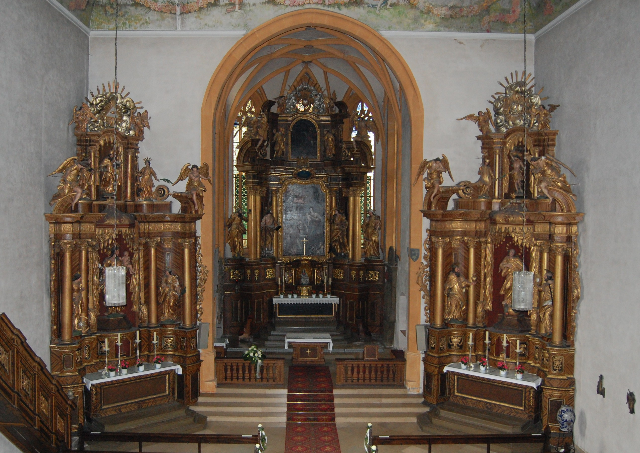 Saint Mary's chapel (built 1727) in Bad Kissingen (Germany)